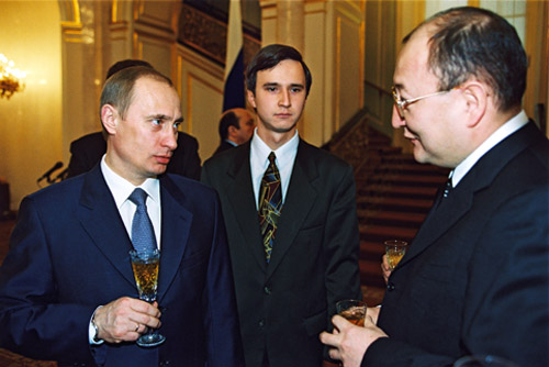 THE KREMLIN, MOSCOW. With Altynbek Sarsenbaiuly, Ambassador of the Republic of Kazakhstan (right).